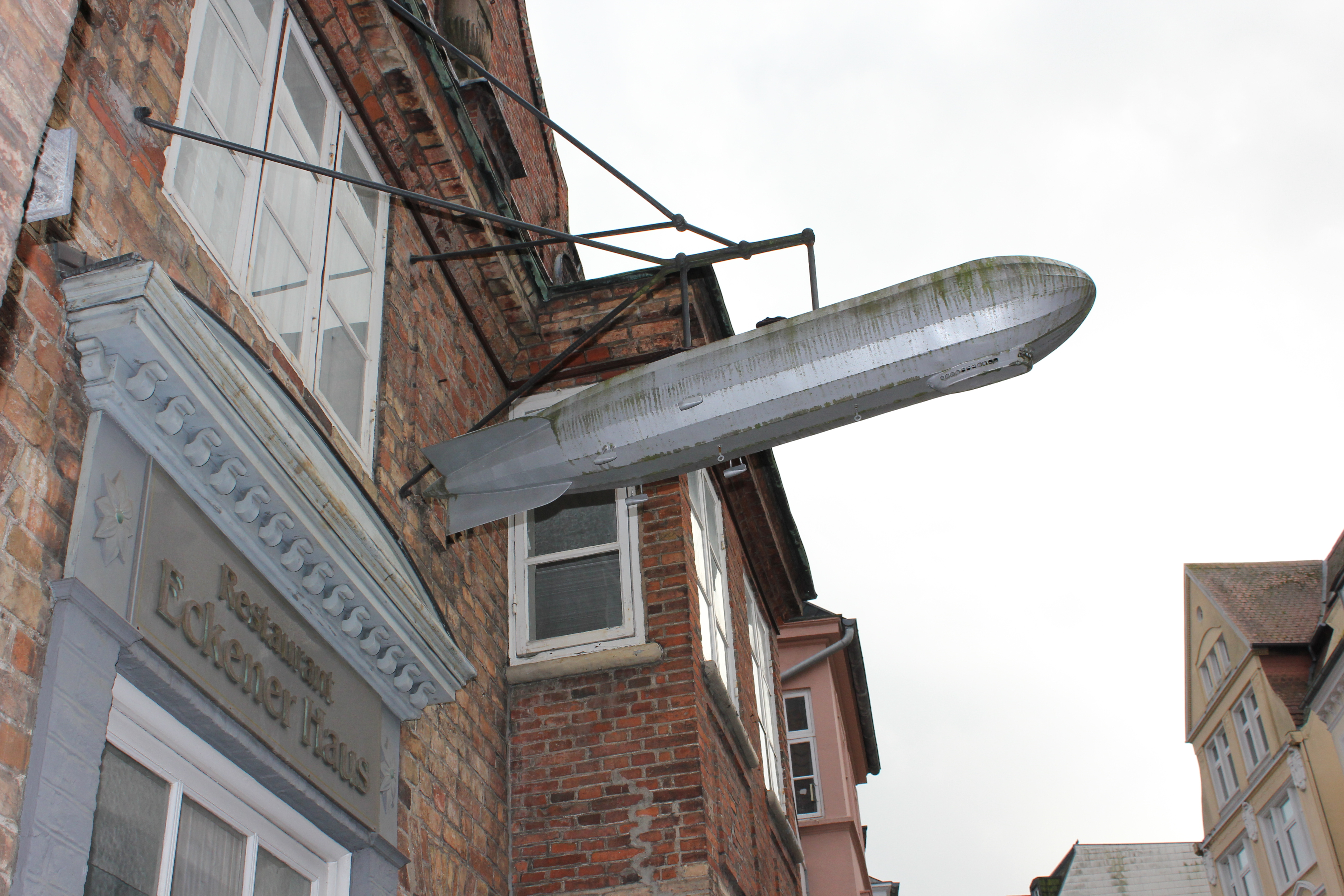 Door of the Eckener Haus (Eckener House) -- Birth house of the Eckener Bros